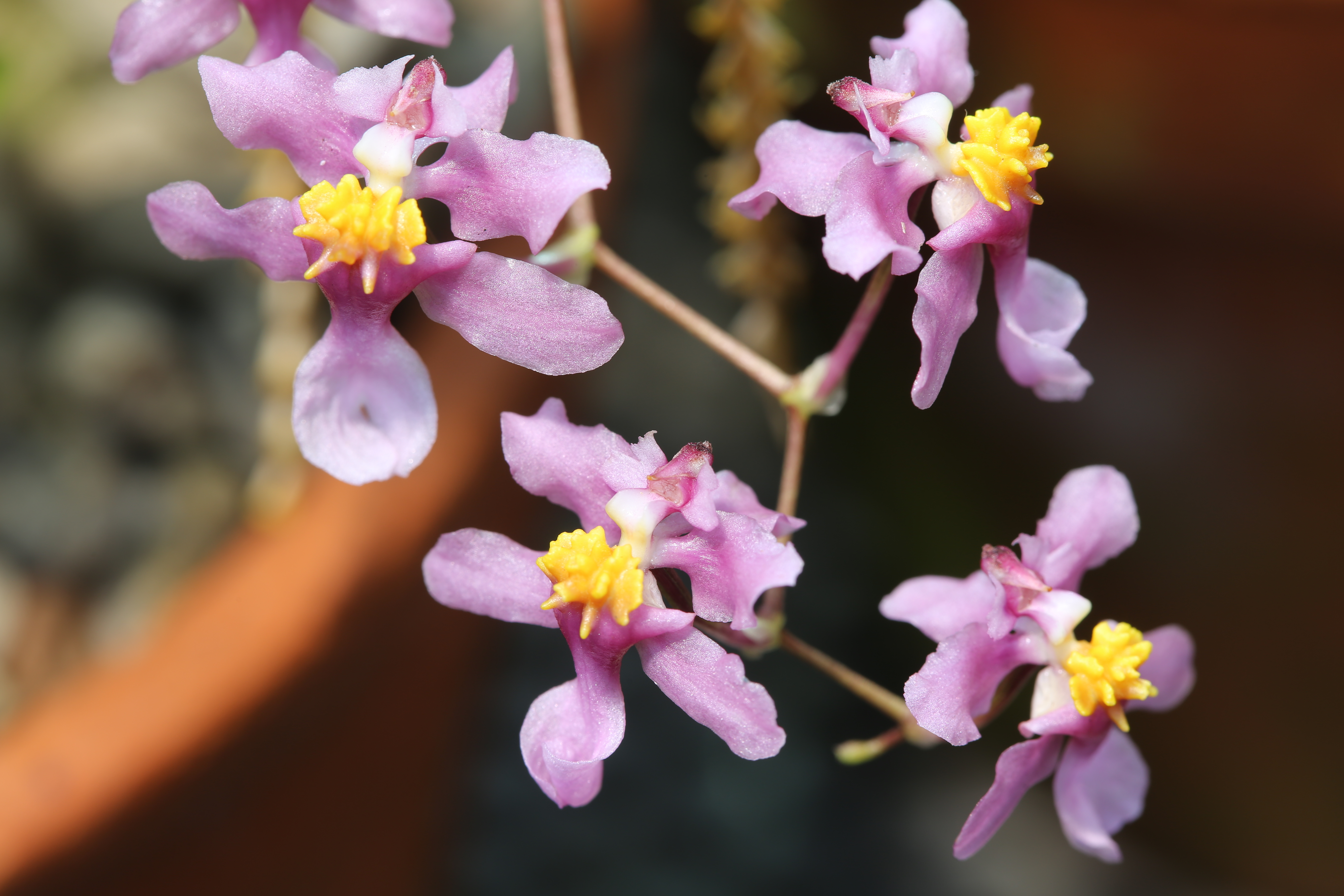 Oncidium ornithorhynchum at Gothenburg botanical garden in 2015. Plant id: 1987-V0744 p G -- Christ., H